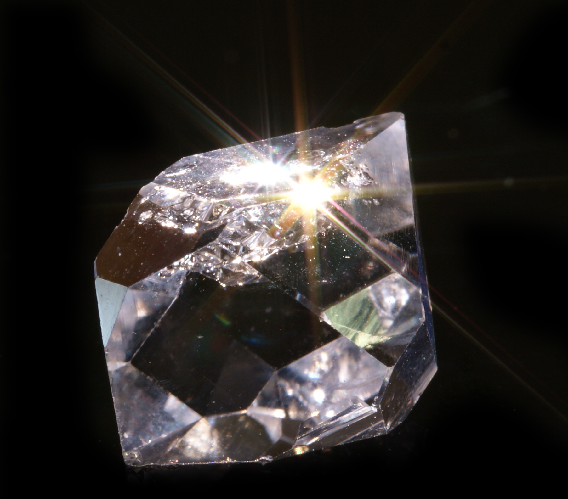 Herkimer quartz - Herkimer County New York (USA) (2x1.3cm)